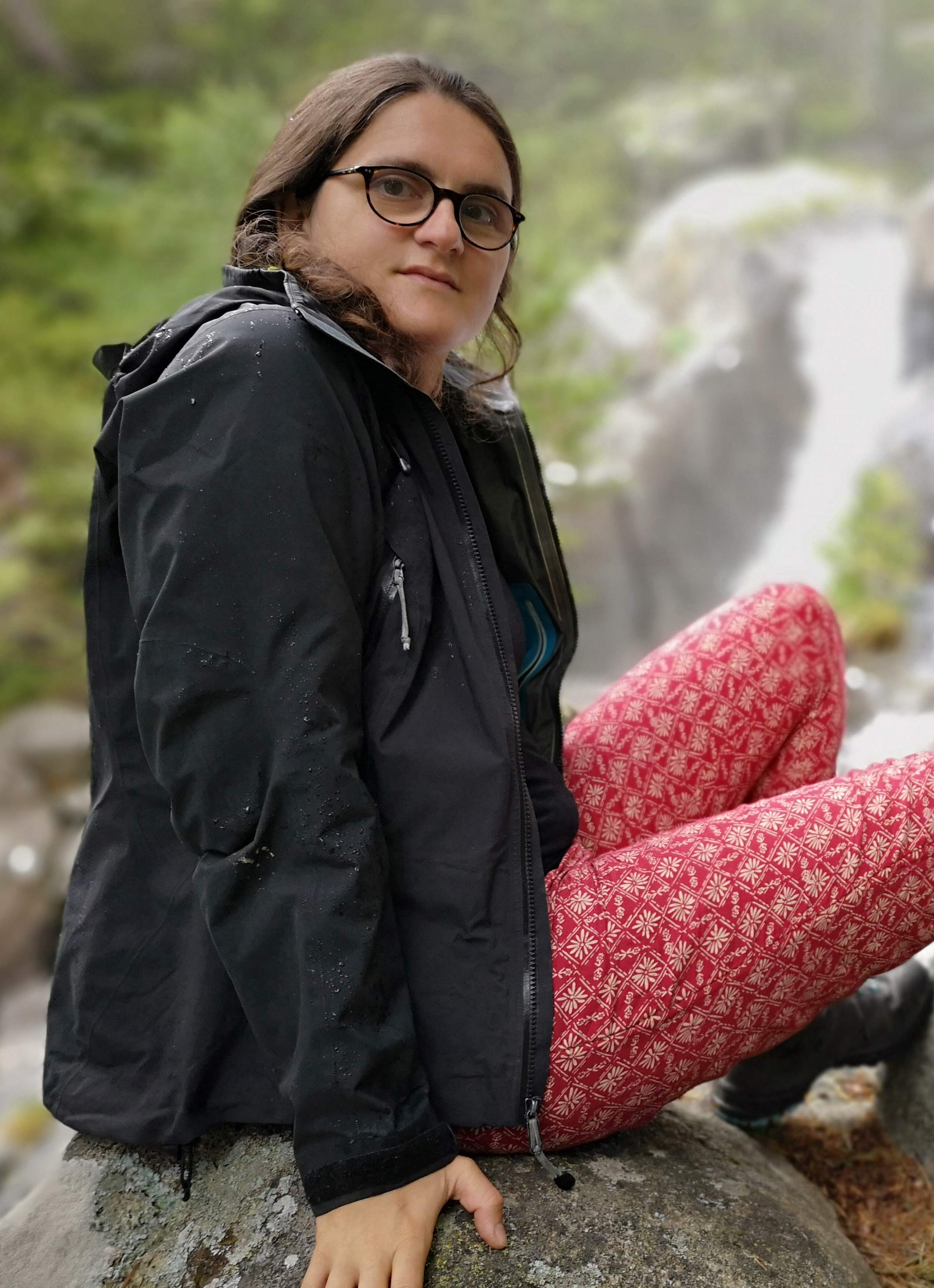 Prof Suzanne Aigrain